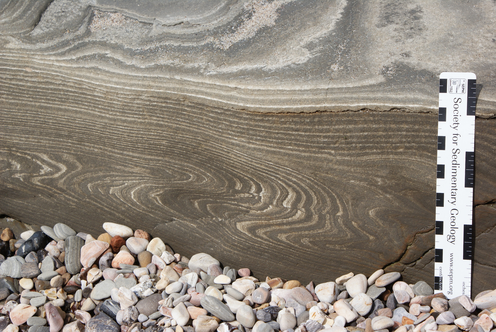 Slump fold, California, USA